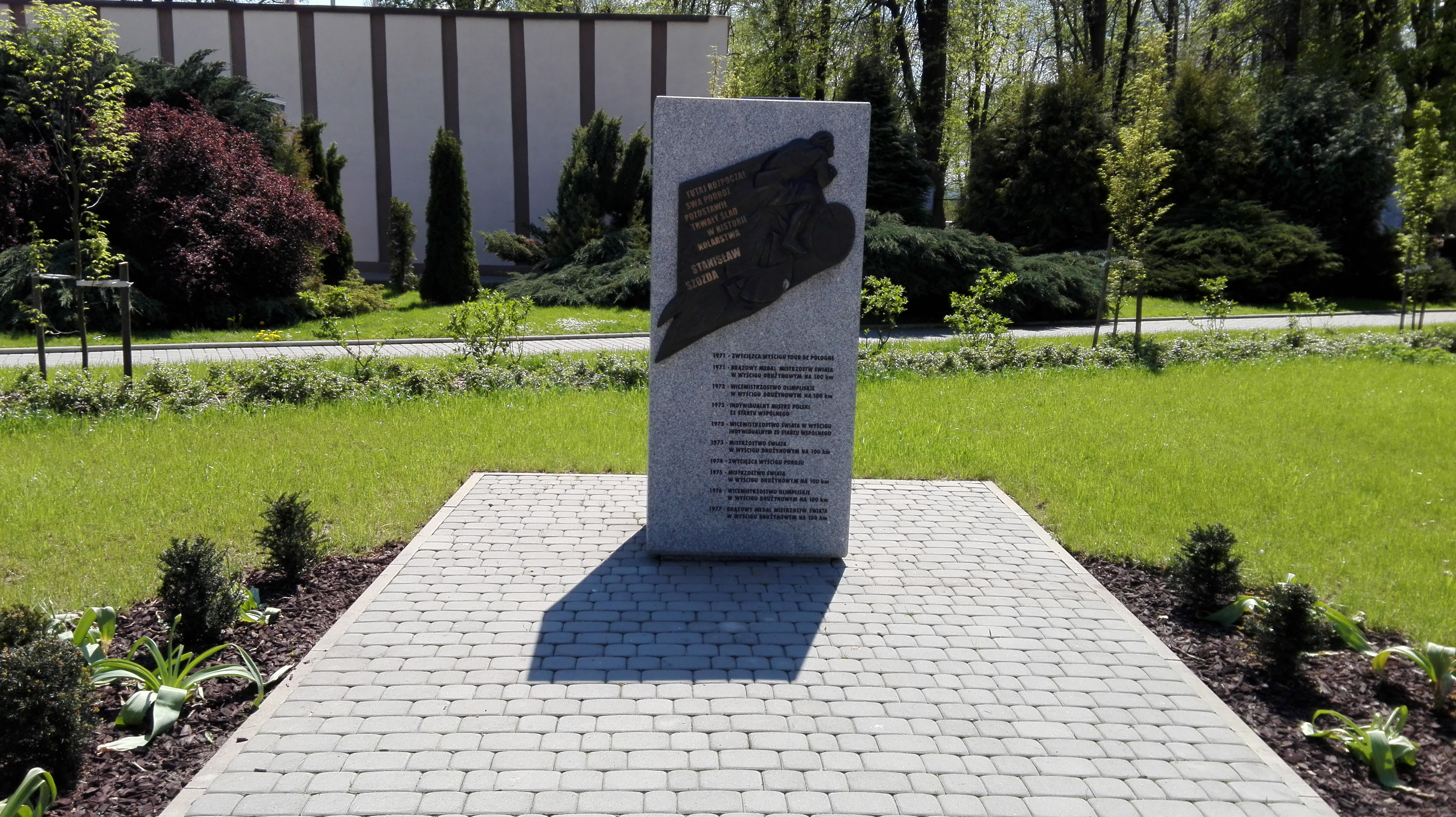 Monument of Stanisław Szozda; photographed in Prudnik